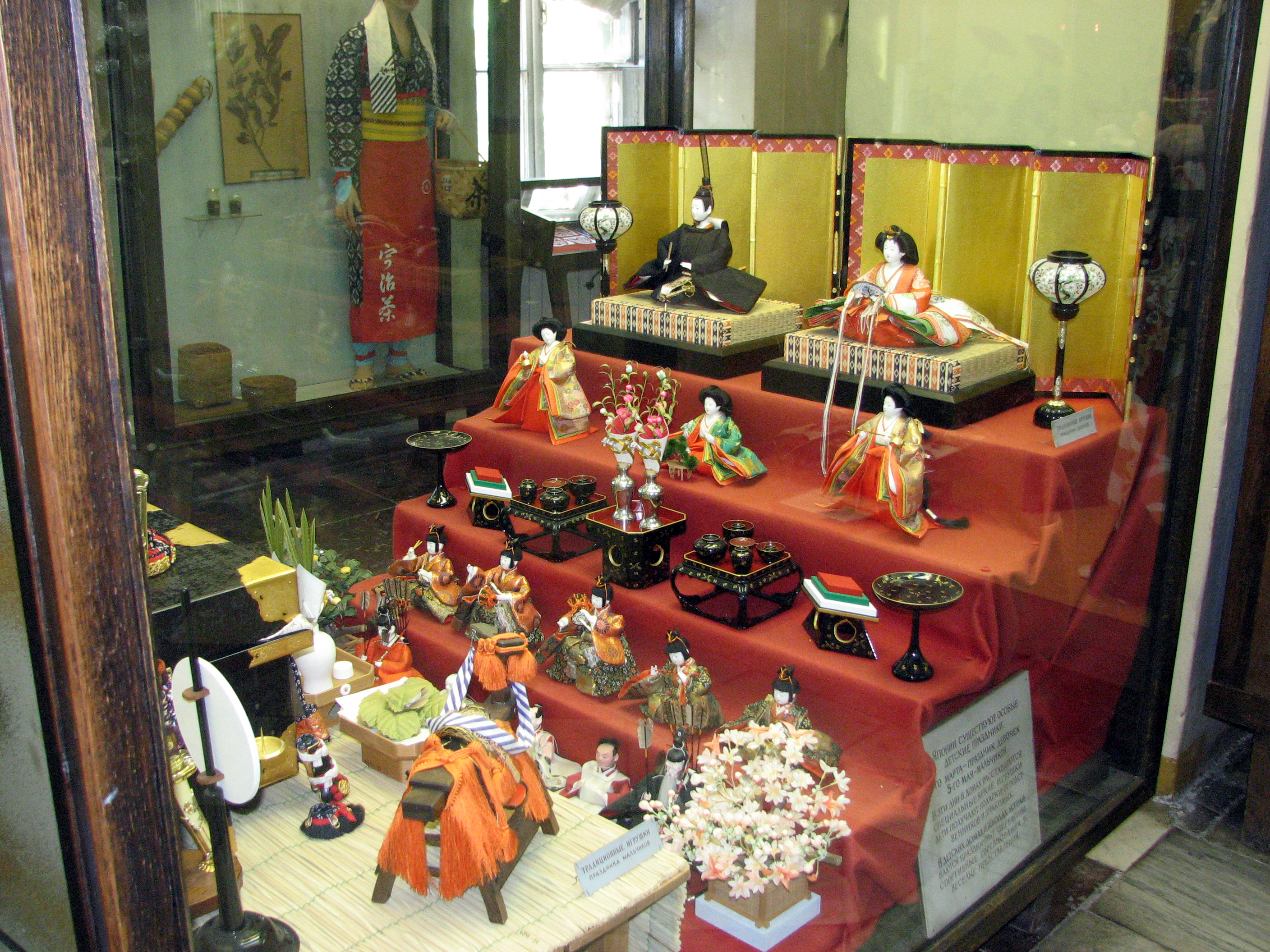 Saint Petersburg. Kunstkamera. Hall of Japan. An exposition devoted to the Holiday of girls and the Holiday of boys. Traditional toys of the Holiday of girls.